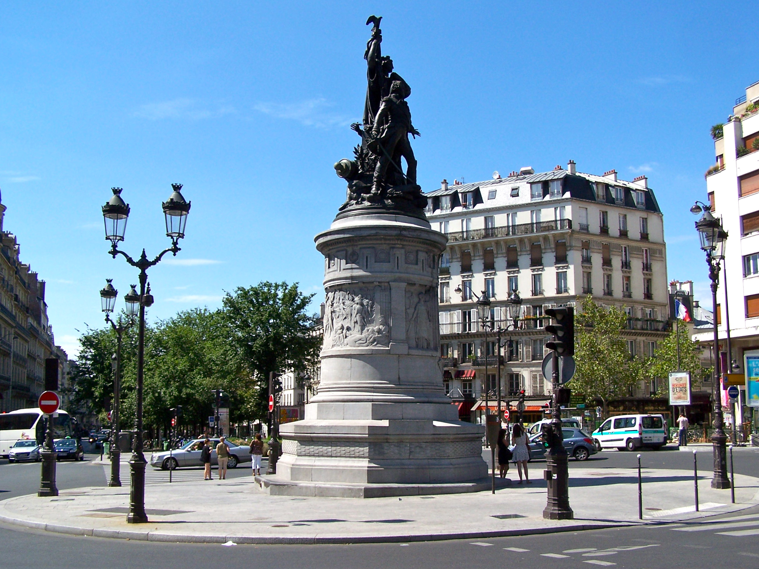 Vue de la place de Clichy et du monument au maréchal Moncey.